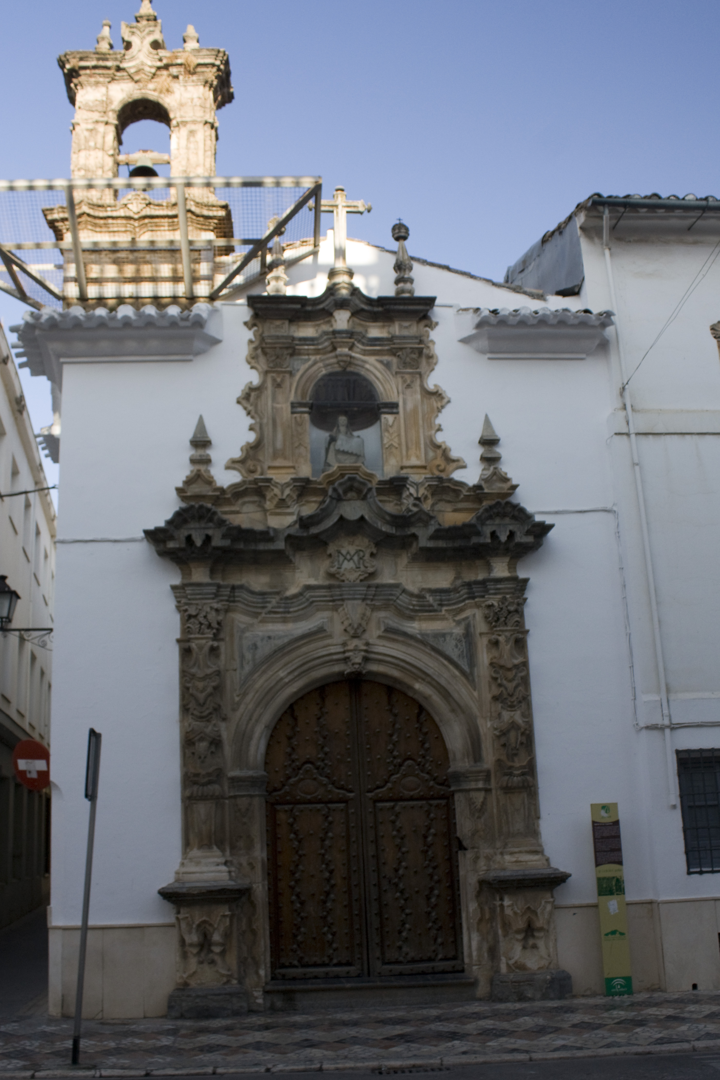 The Church of Our Lady of Sorrows of Priego de Cordoba of rich eighteenth-century rococo style is considered as a work of Juan de Dios Santaella.